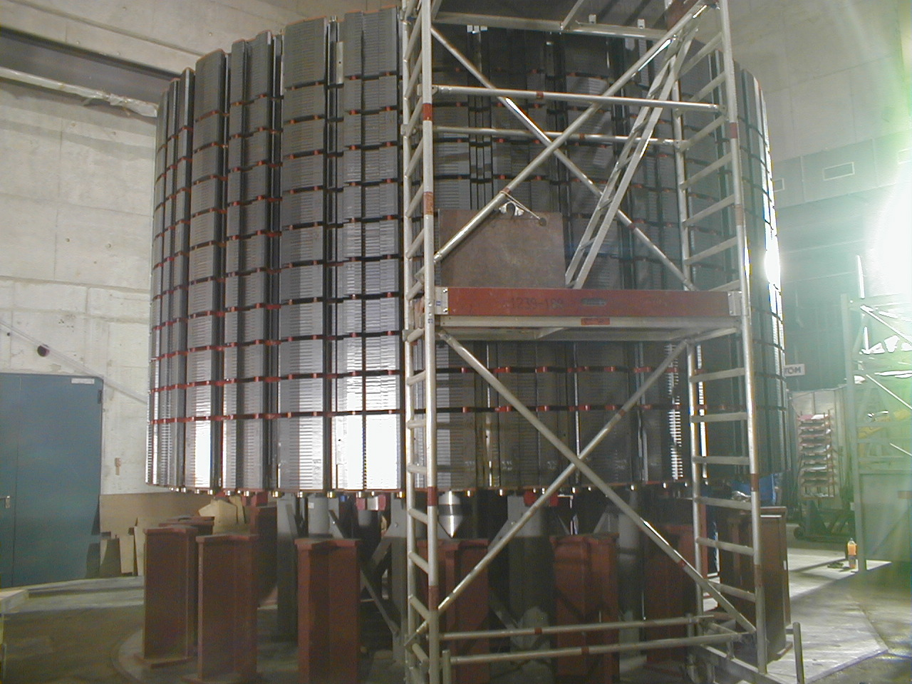 Hydroelectric power plant Goldisthal in Thuringia, motor/generator rotor body